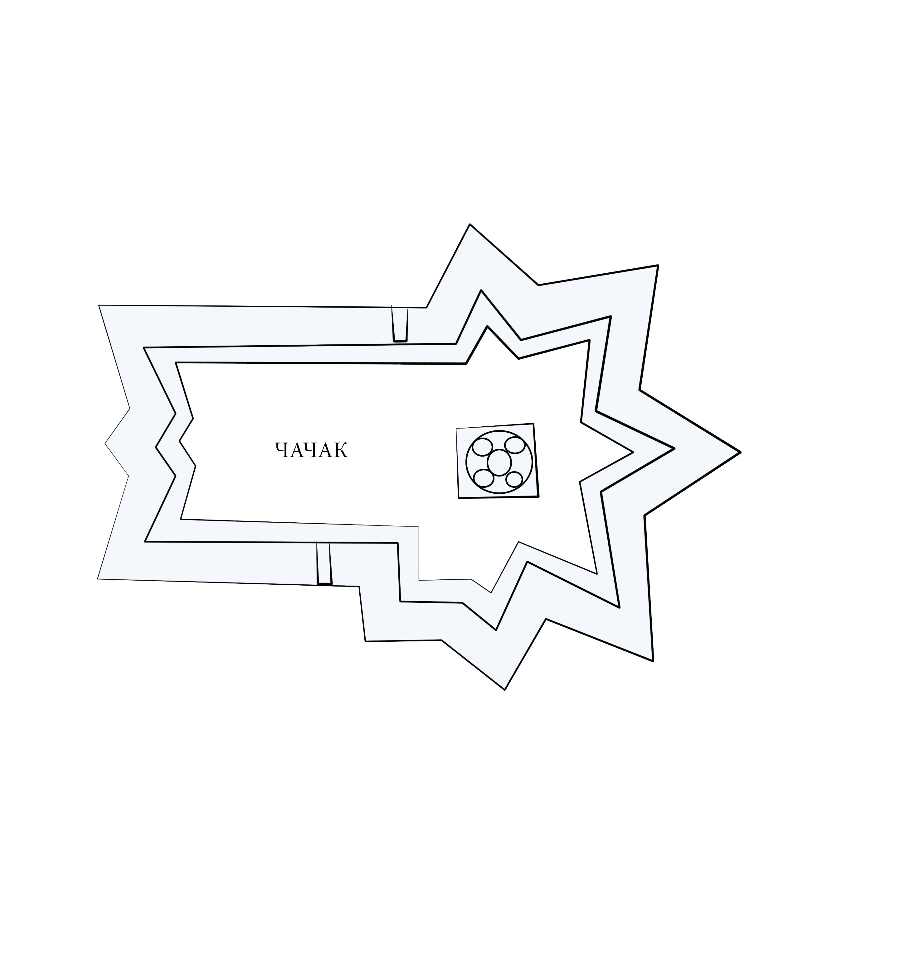 Sconce fortress in Čačak 1740